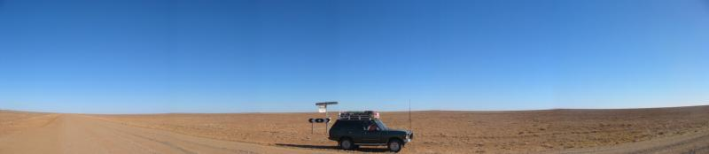 Strzelecki Desert. Author- David Olsen